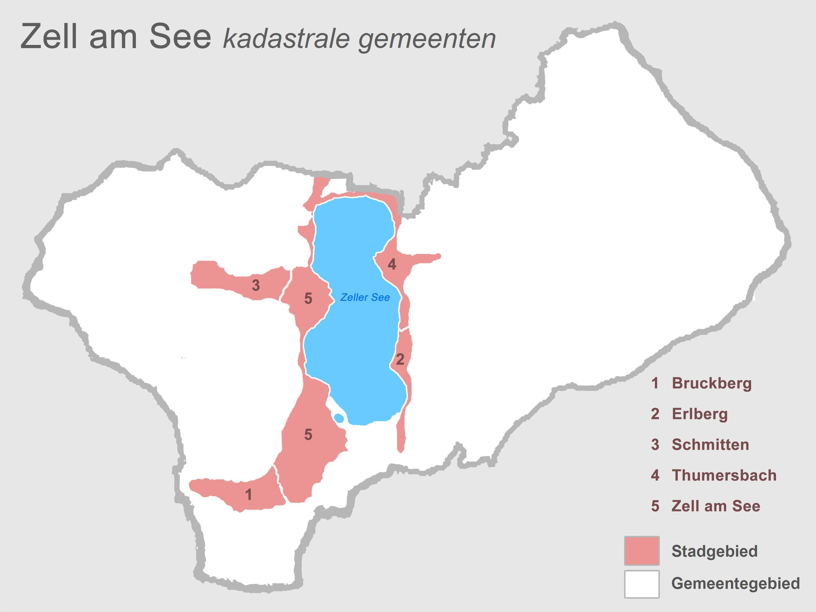 Zell am See City